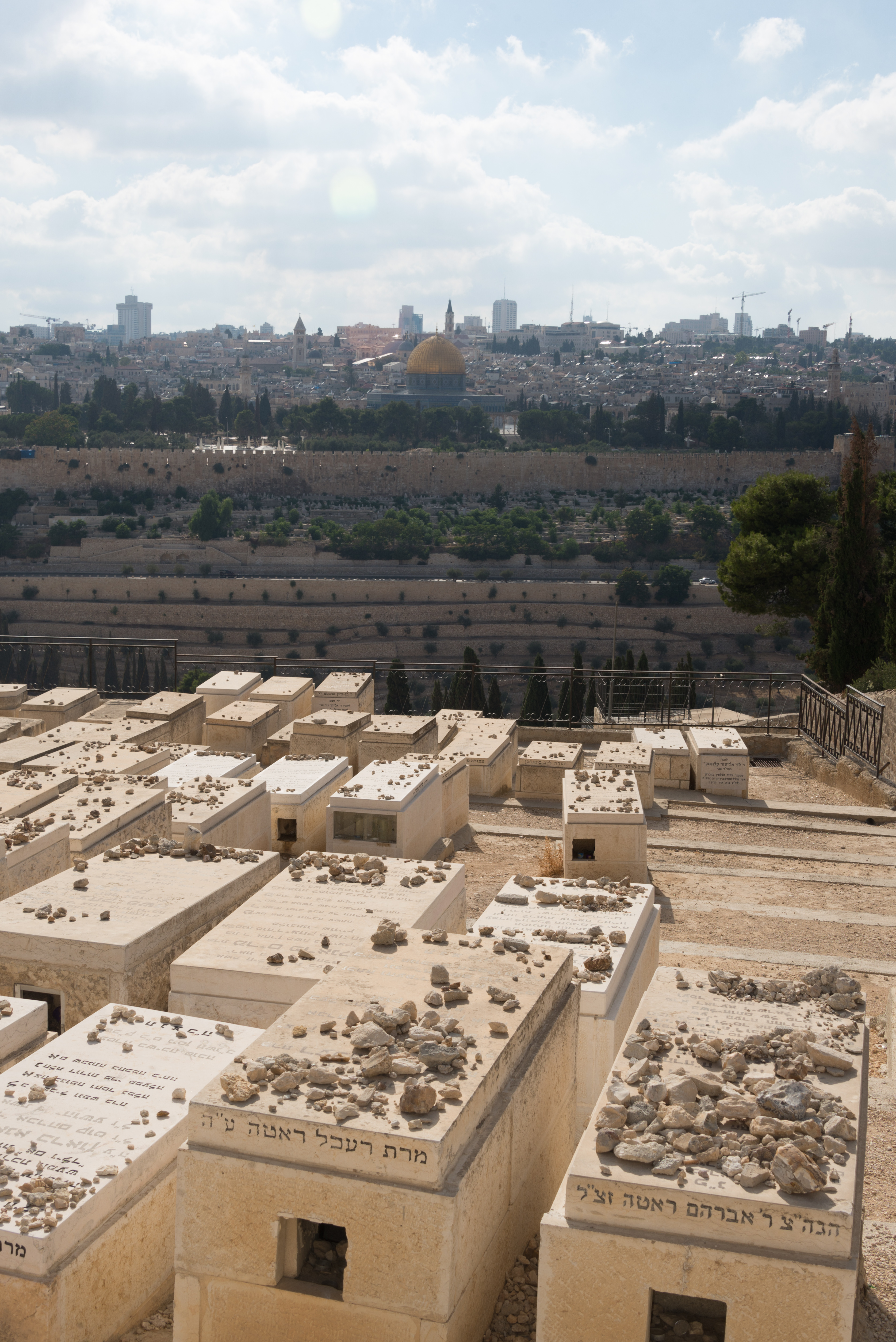 121224-Jerusalem- - Mount of Olives Jewish Cemetery Jerusalem Mount of Olives